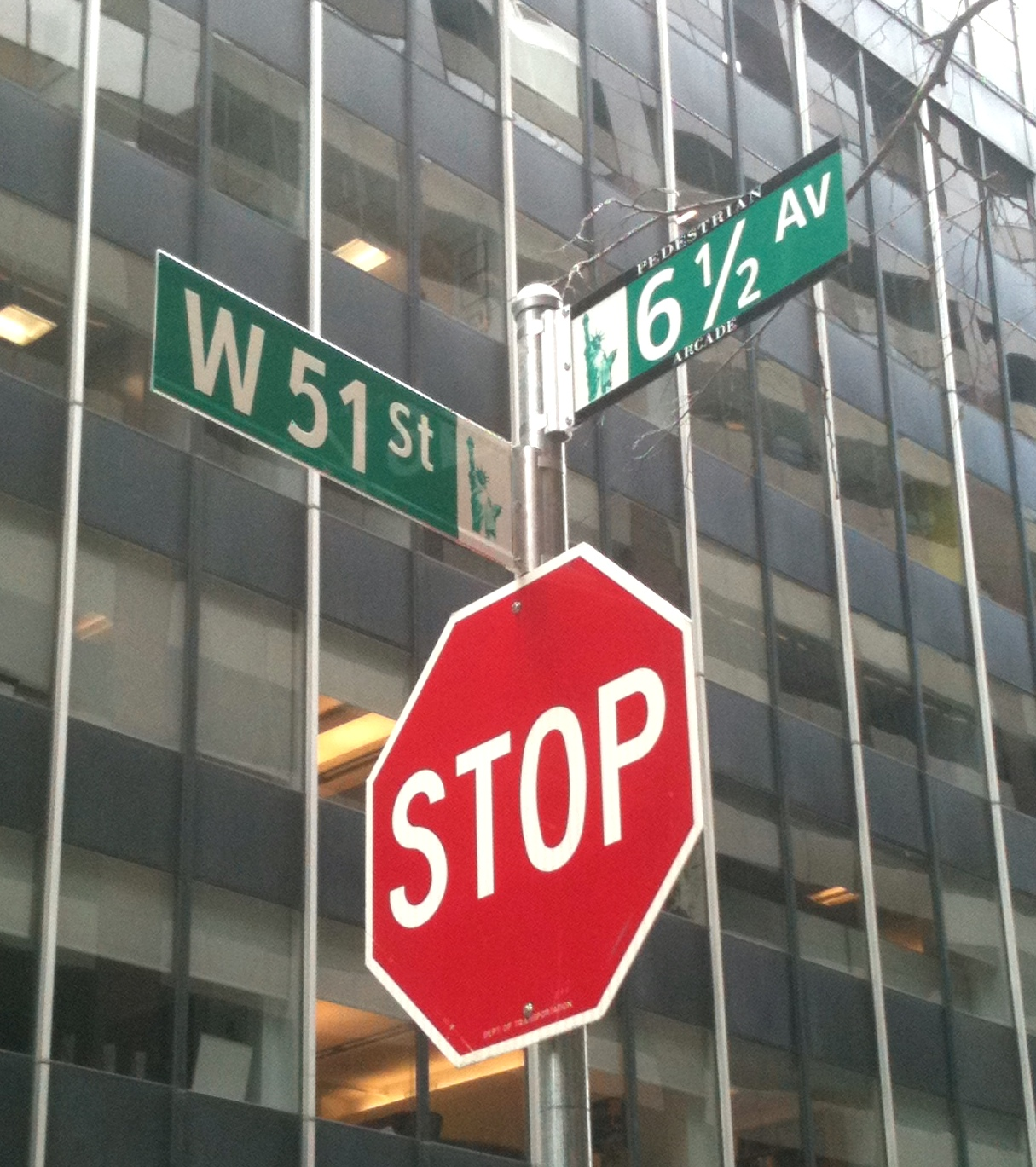 Street sign of Sixth and a Half Avenue (6 1/2 Ave) and W 51st Street. Note that the picture was taken during the brief period that the stop sign was on the same post as the street sign. Stop signs were moved to their own posts on August 1, 2012.